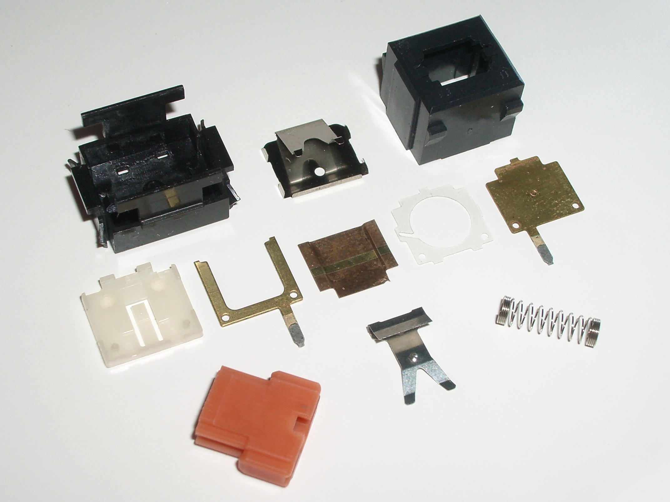 Alps SKCM Orange (long white switchplate, no logo) — fully disassembled